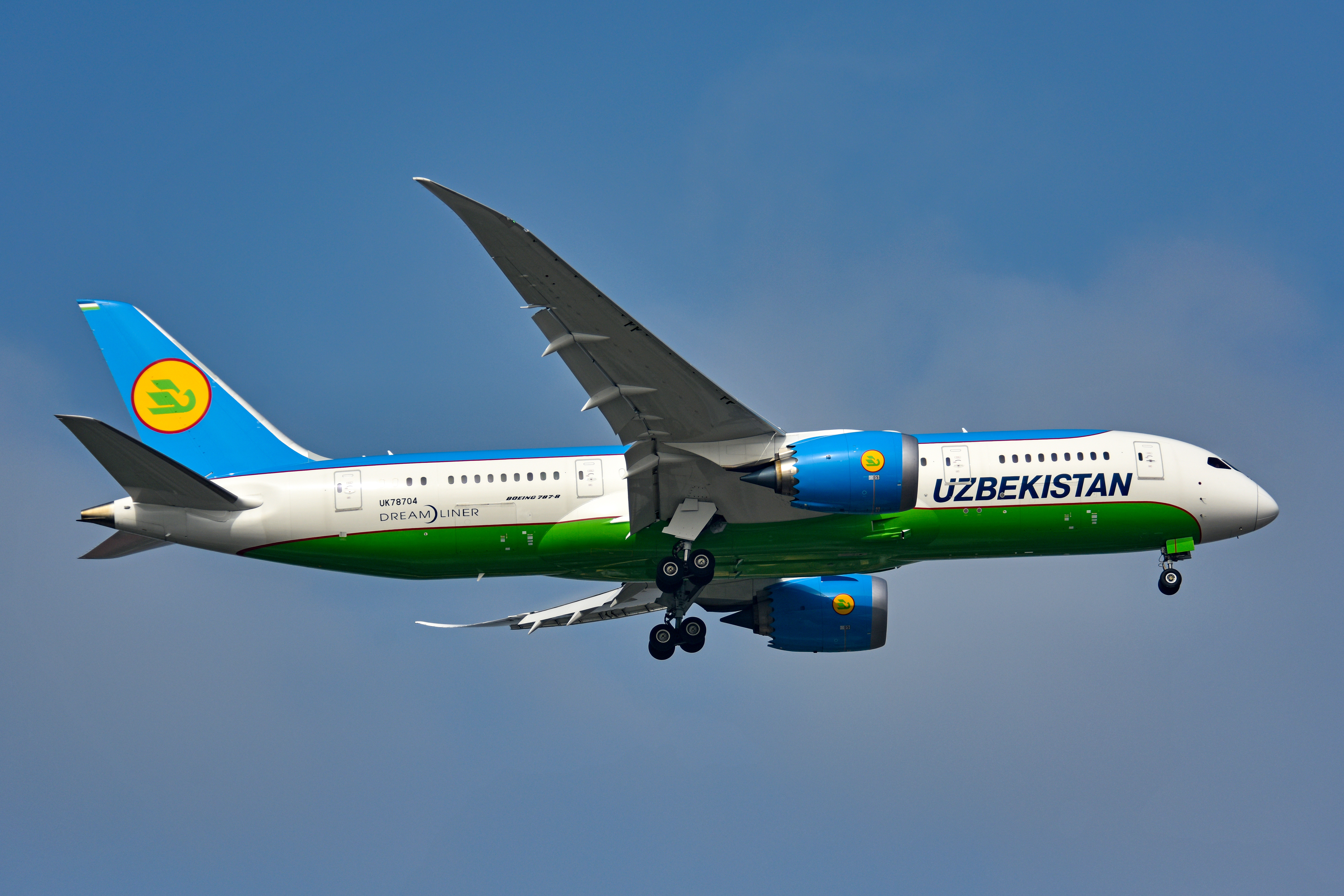 Uzbekistan 505 from Tashkent. First time to spot UZB's 787.